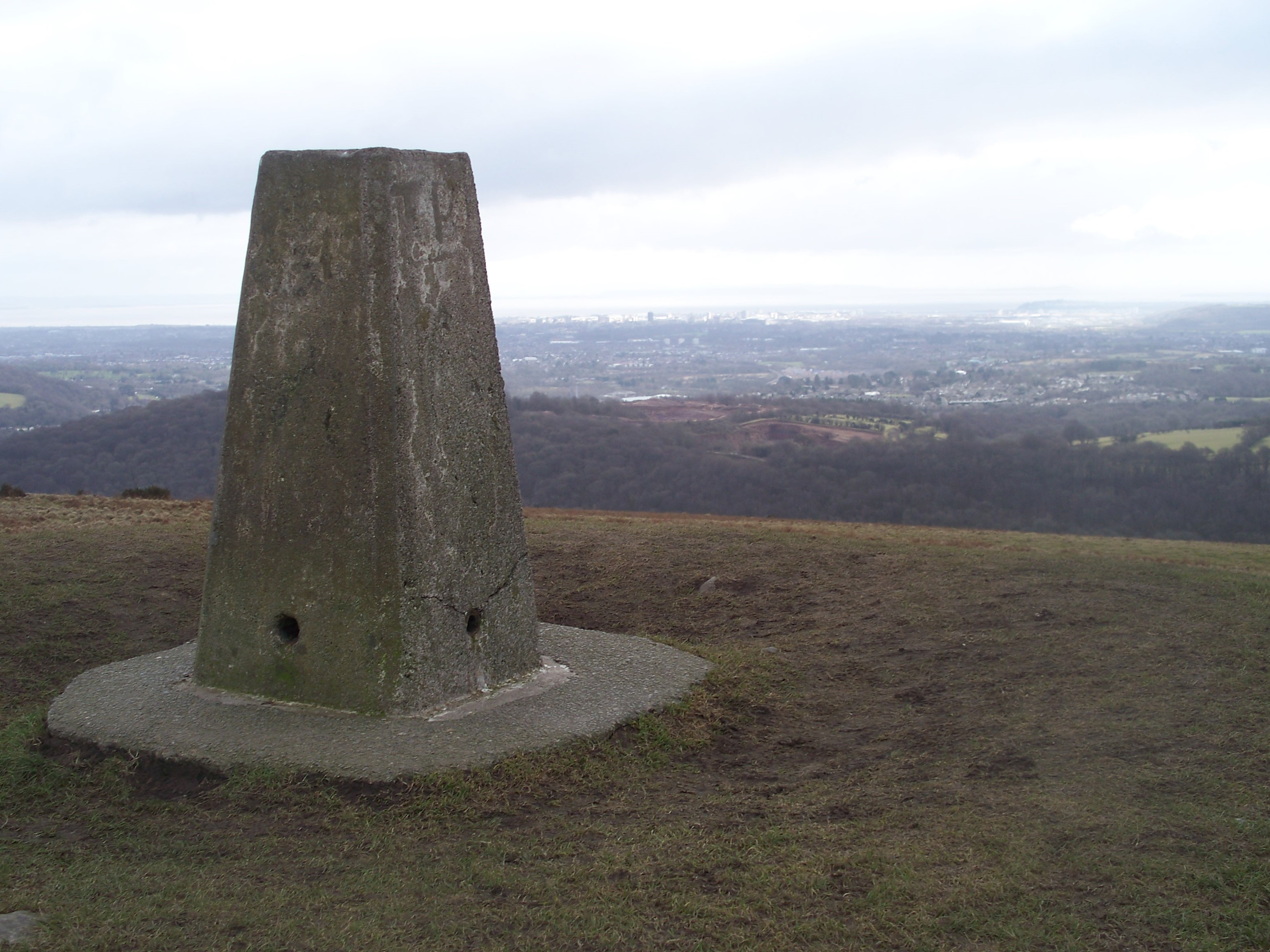 Trig point on Garth Hill